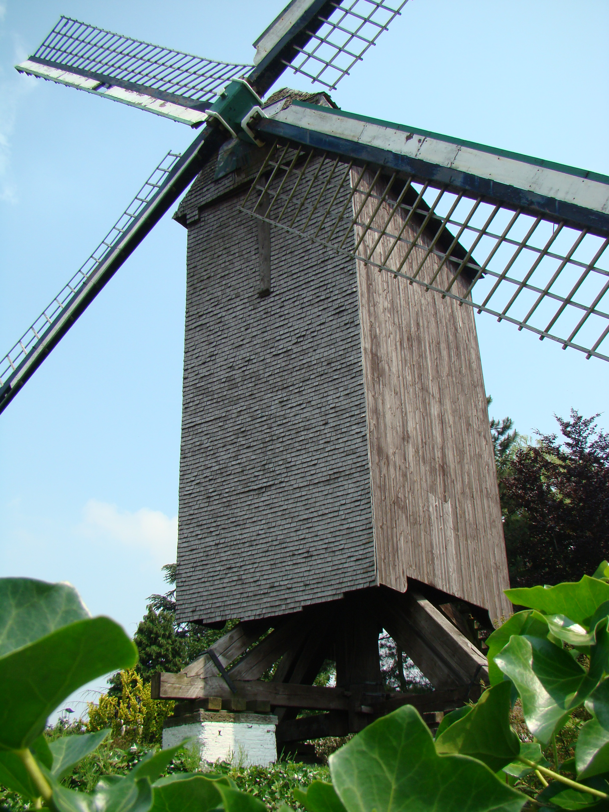 Windmill Stokerijmolen Kuurne (West Flanders, Belgium)